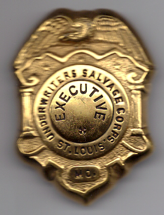 The Agent Shield of Leslie Bright from the early 1900's